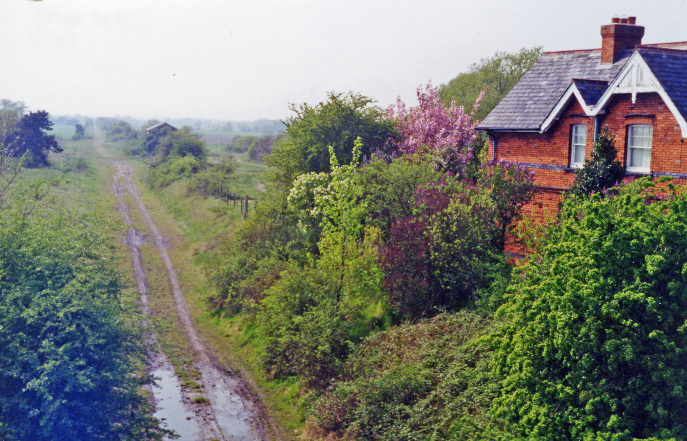 Site of former Doddington & Harby station View westward, towards Shirebrook and Chesterfield: ex-GC (Lancashire, Derbyshire & East Coast Railway). The station was closed to passengers 19/9/55 when the service ceased Shirebrook - Lincoln, but freight continuedd along this section until 2/2/80 - latterly coal to High Marnham Power Station [?].